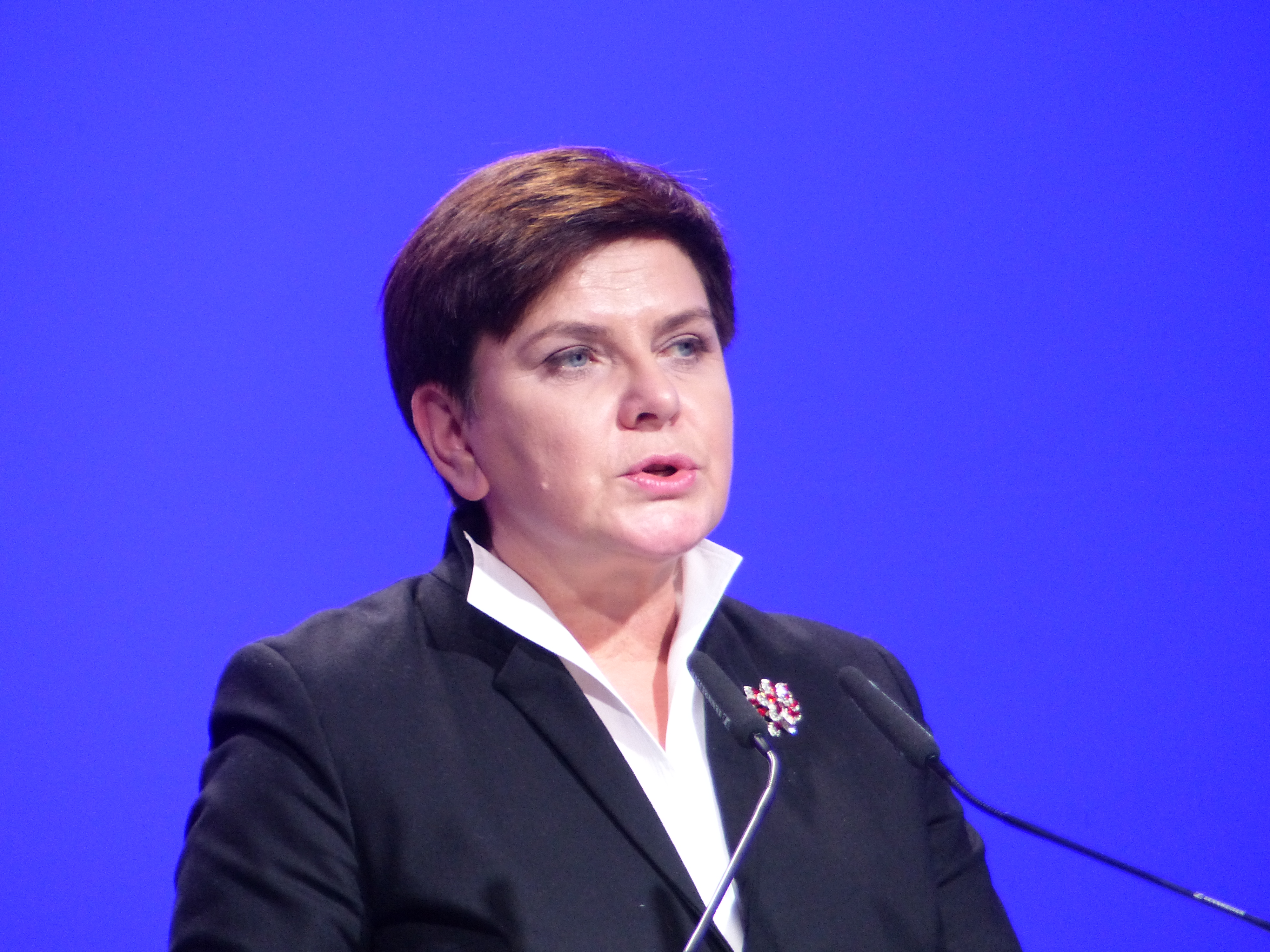 Beata Szydło. National Independence Day. Taken on the 11th of November, 2016. Krakow, Central Europe. Poland celebrated on this day its independence. In 1918, after 123 years of partition by the Russian Empire, the Kingdom of Prussia and the Habsburg Empire Poland's sovereignty was restored. PTG Sokół Józefa Piłsudskiego 27 33-332, Poland, Central Europe.